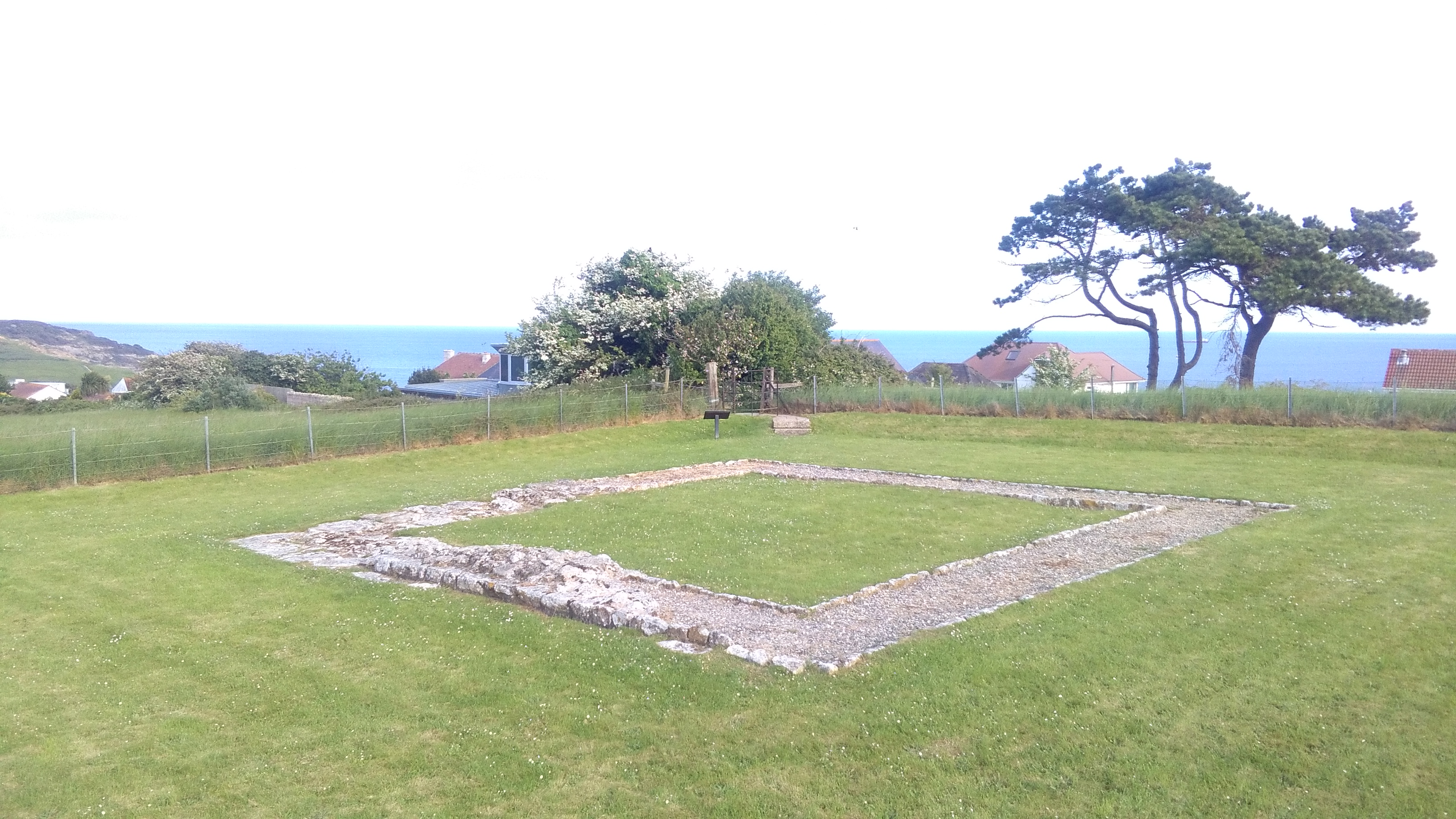 Jordan Hill Roman Temple